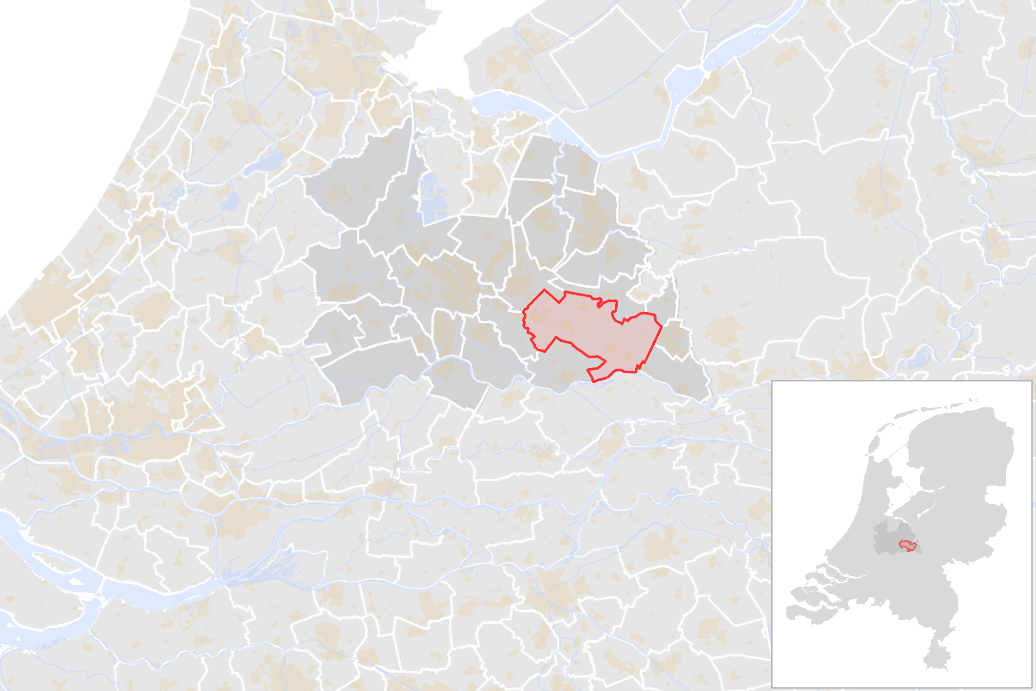 Locator map showing municipality boundary of one of the 390 Dutch municipalities (as of 2016)